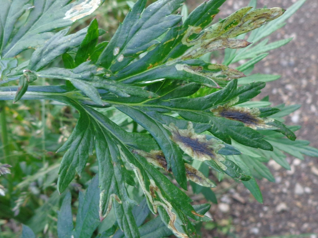 Trypeta artemisiae (middle leafmines with black center) and Liriomyza demeijerei (the laterals leafmines) on Artemisia vulgaris. Found in Rīga town, Latvia